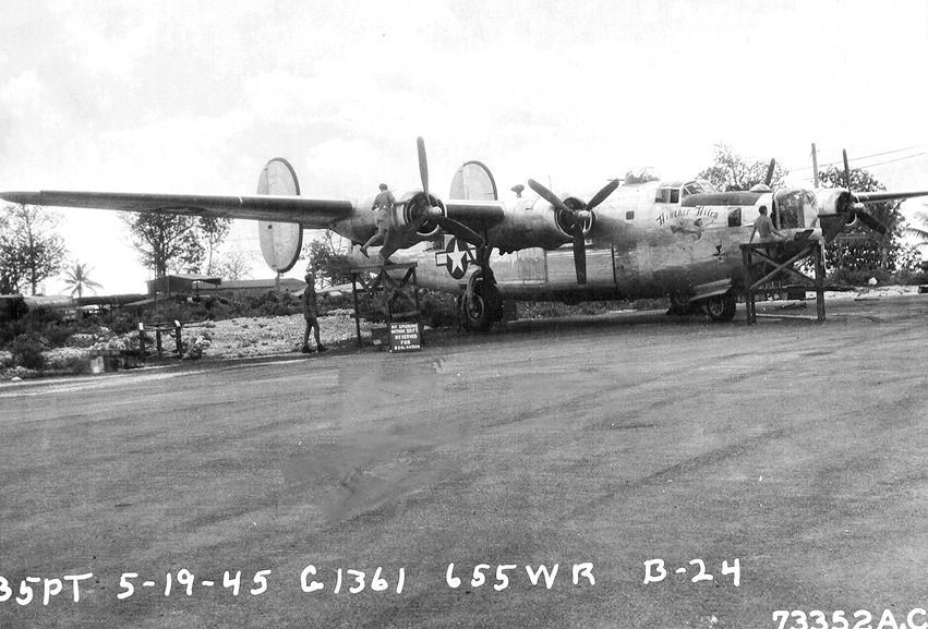 "Weather Witch" Ford B-24L-10-FO Liberator s/n 44-49506 655th Weather Recon. Squadron, 20th Air Force Depot (later, Harmon) Field, Guam, Northern Mariana Islands, May 19, 1945.